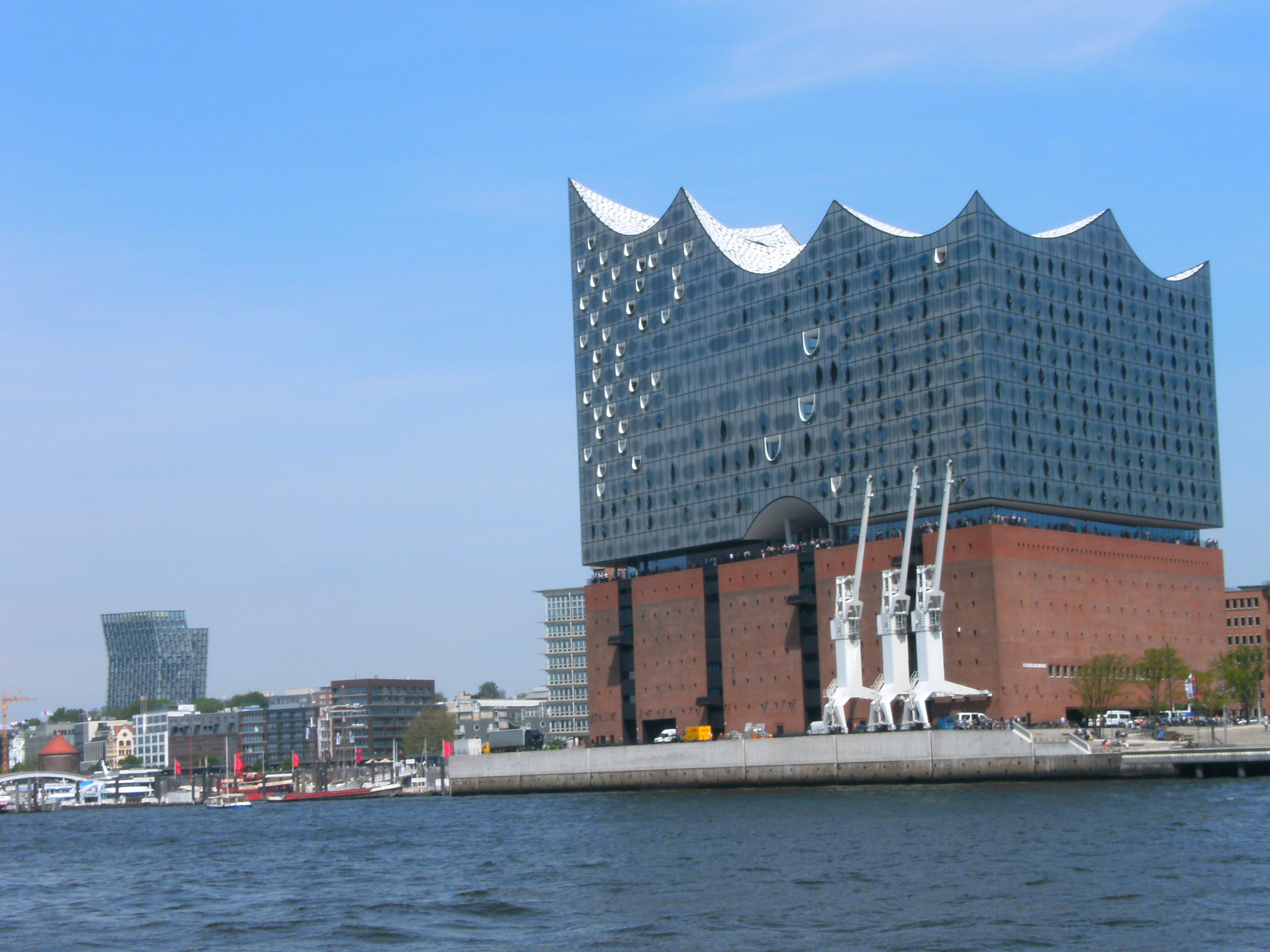 Hamburg, Germany: View on Elbphilharmonie from the south.